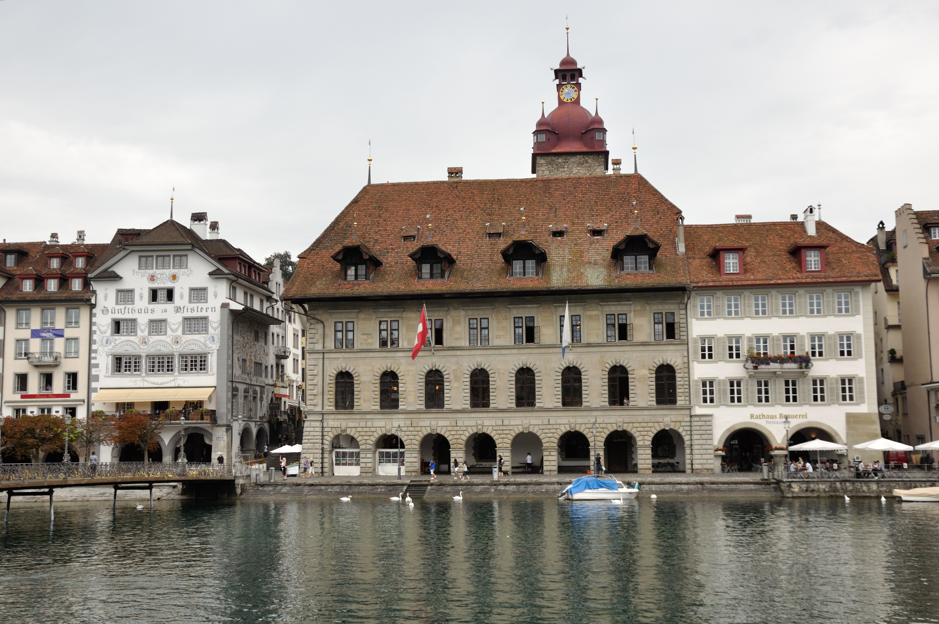 Switzerland, Canton of Lucerne, views in Lucerne. Looking north across the Reuss river toward the Rathaus (Town Hall) and the Rathaussteg bridge.